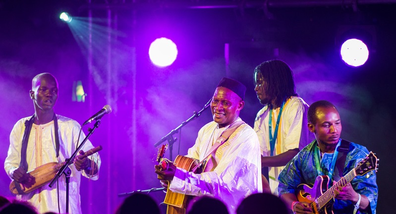 Sidi Touré performingin 2013